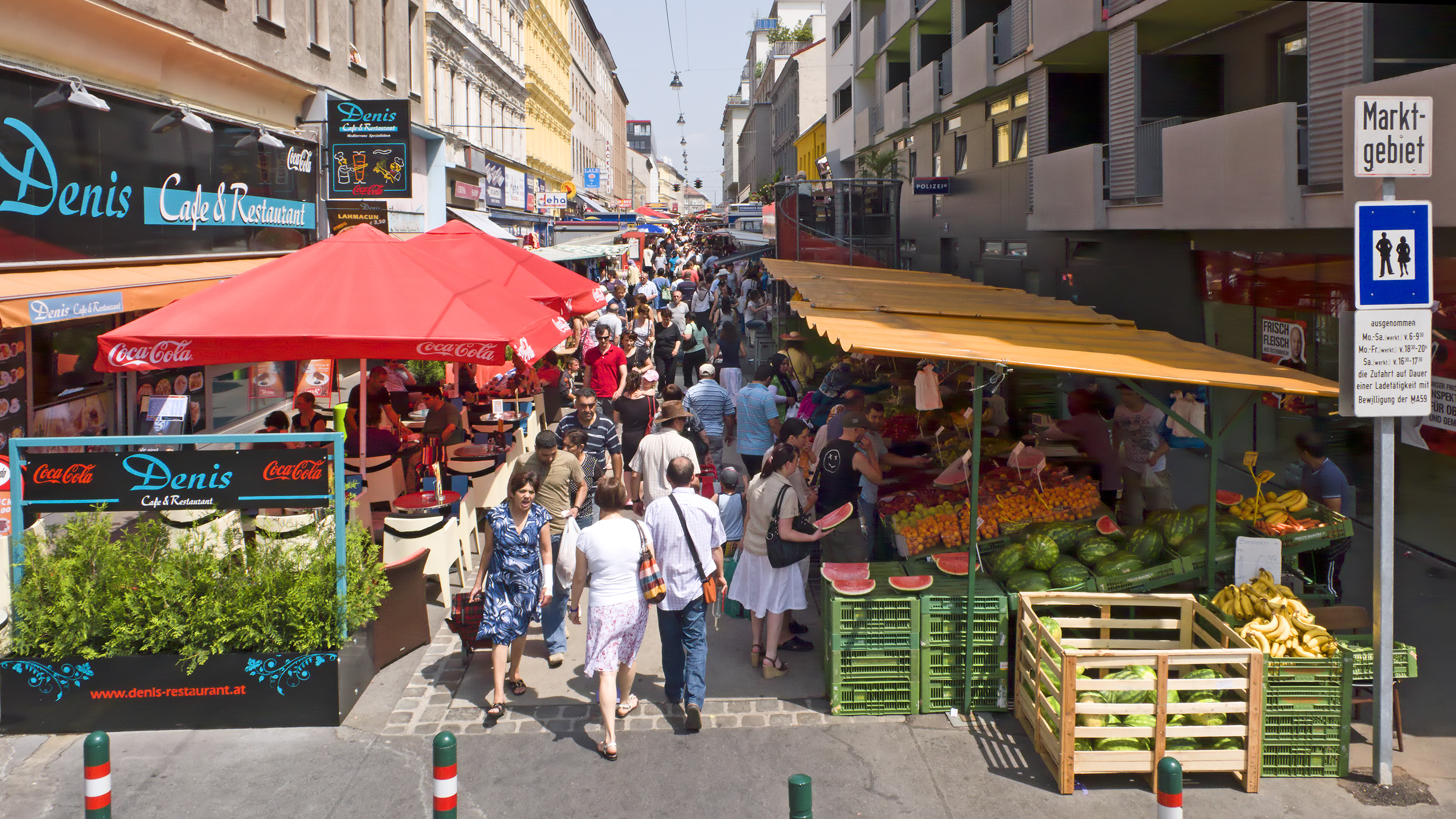 Market place Brunnenmarkt in Vienna Ottakring